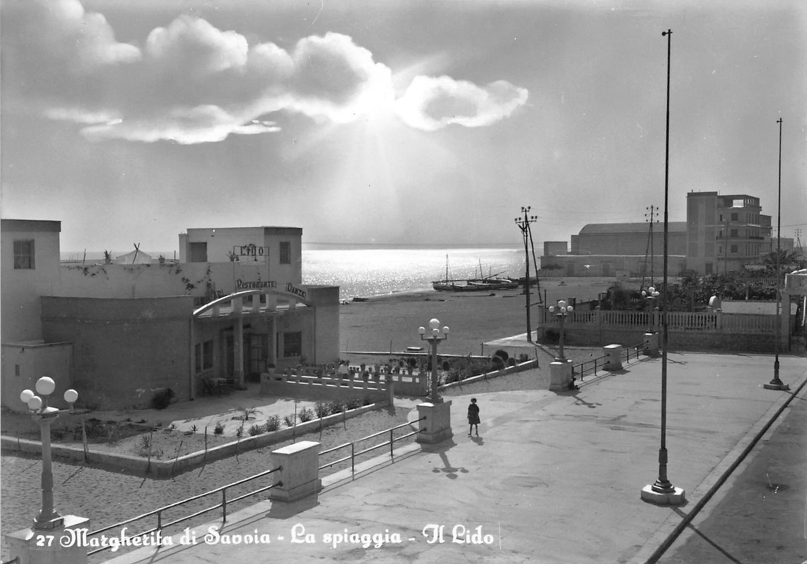 postcard